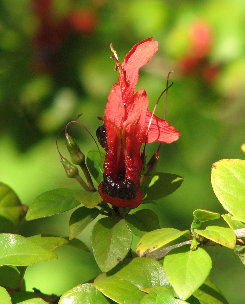 Ruttya fruticosa (cultivated, labelled) Burnley Gardens, Burnley, Victoria, Australia